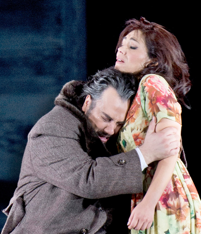 Production of La Traviata at Hamburgische Staatsoper 2013, stage photo: Ailyn Pérez as Violetta Valéry, George Petean as Giorgio Germont.